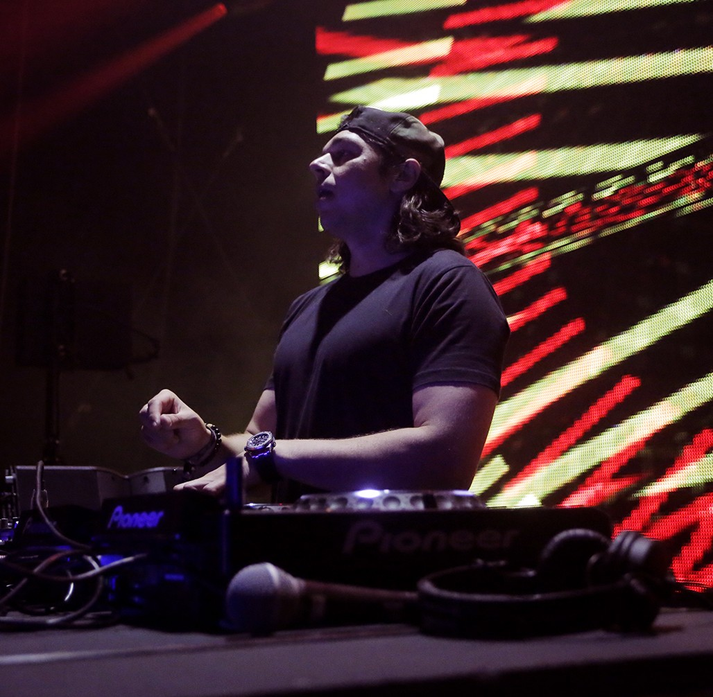 Maxvangeli during a public show in New York.